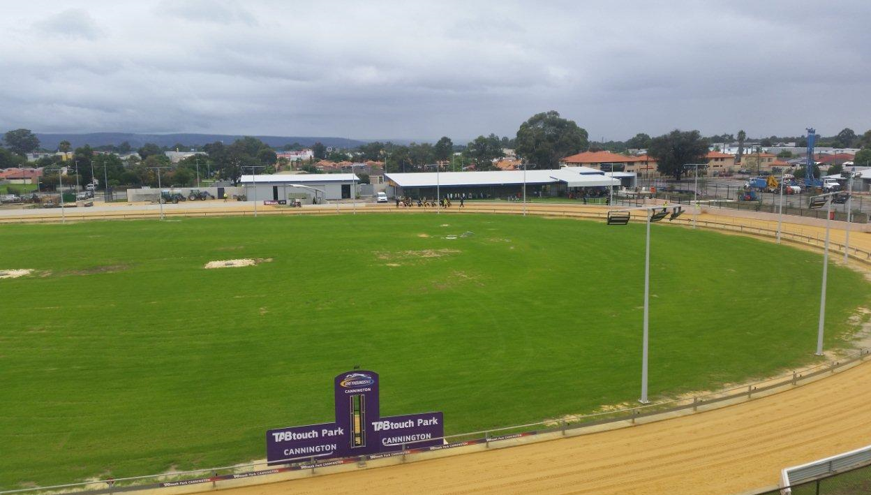 Greyhounds Walking to the Boxes for a Race at cannington Greyhounds